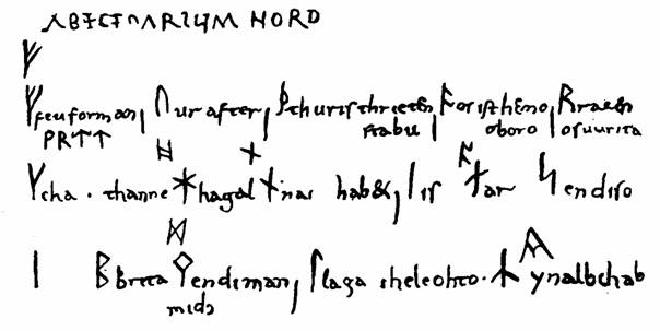 Drawing of the "Abecedarium Nordmannicum" in the St. Gallener Handschrift MS.878, p.321, by Wilhelm Grimm (1821)